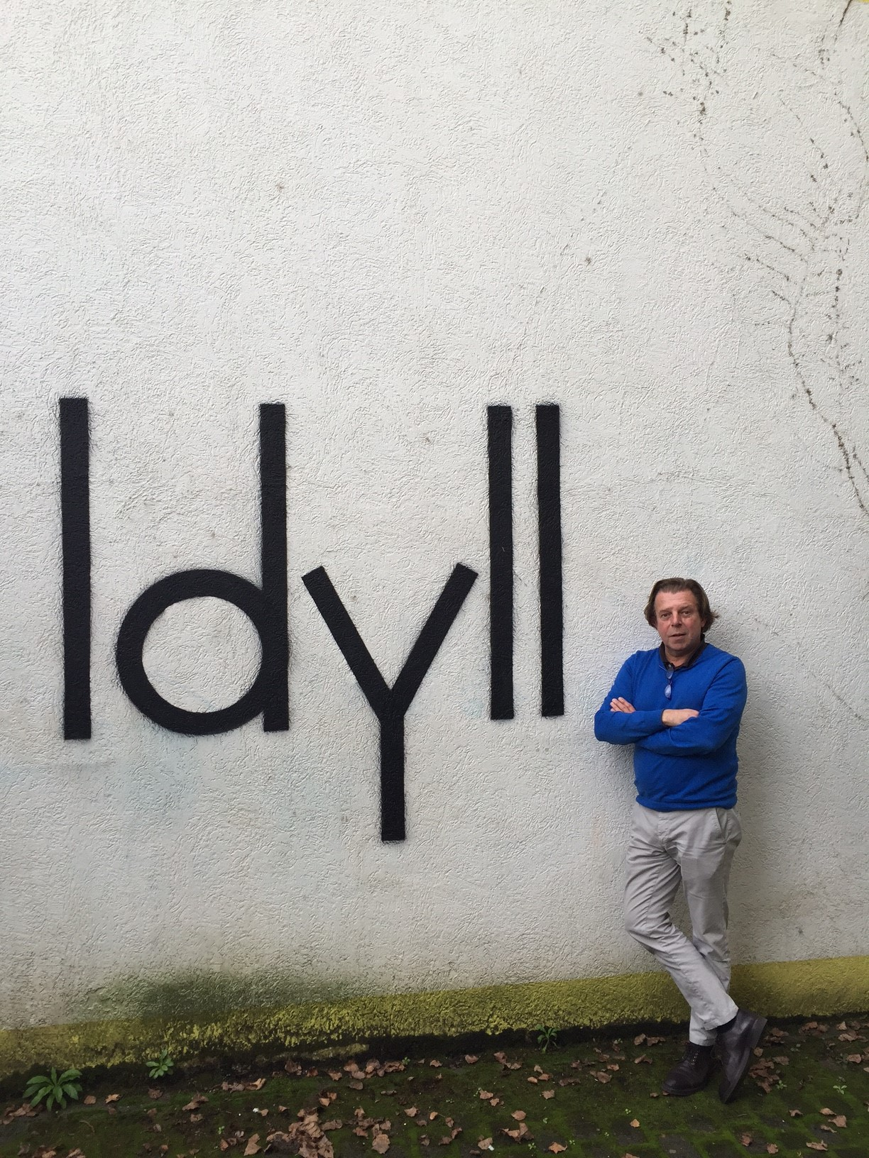 Portrait of the German Curator for Contemporary art Martin Leyer-Pritzkow in front of the art work "Idyll" be Swiss artist Thomas Ruch